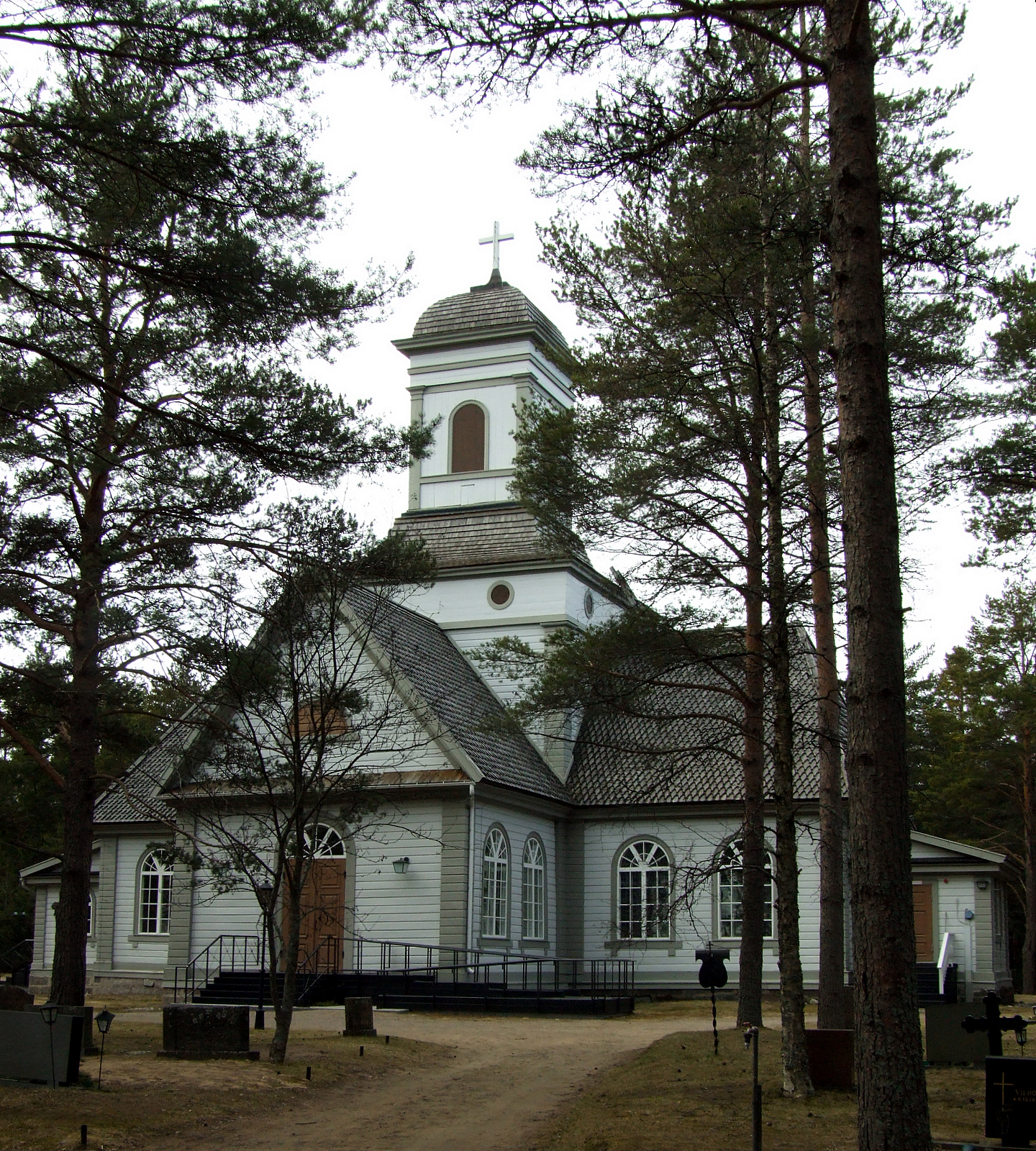 Siikajoki church, Finland. The church was built 1701 and renewed 1852.